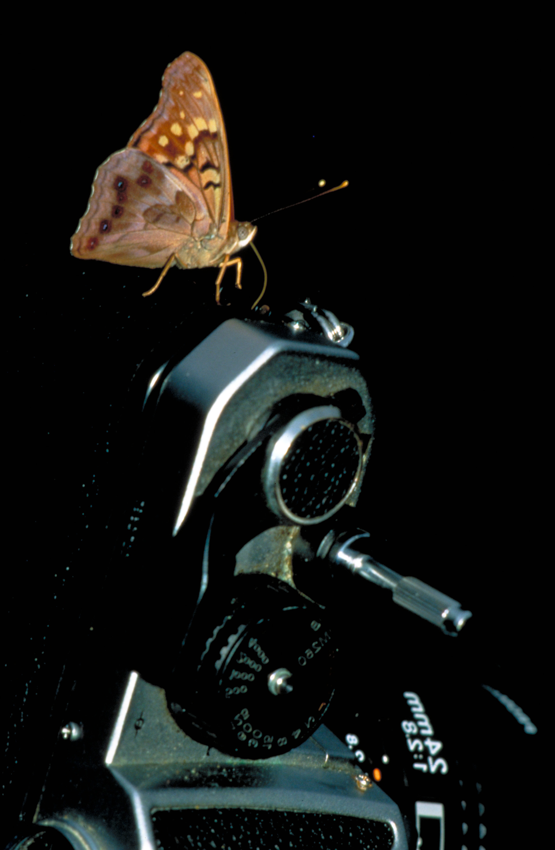 A tawny emperor (Asterocampa clyton) on a camera. The picture is from the U.S. Fish and Wildlife Service.